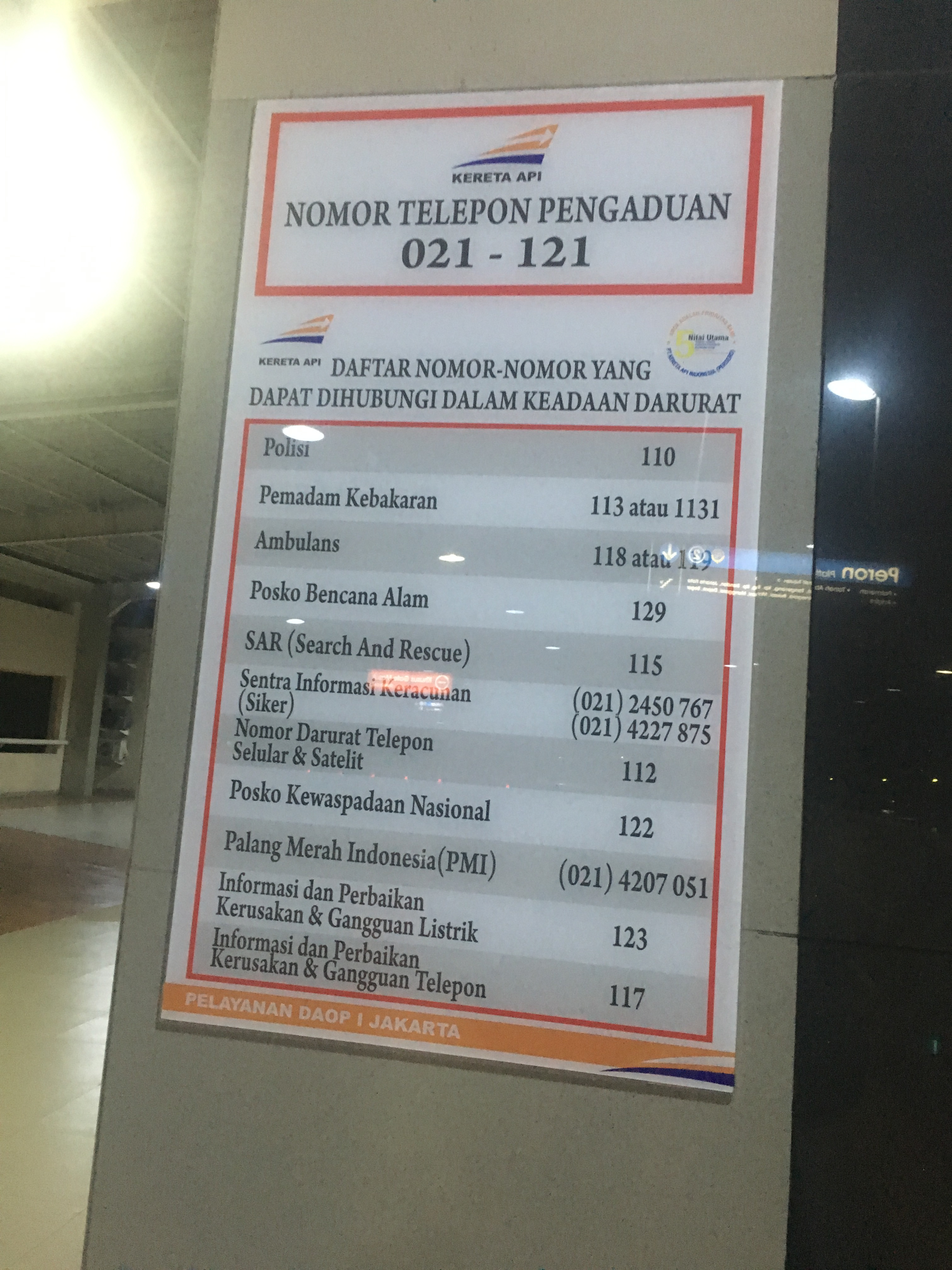 A sign listing all of emergency phone numbers in Jakarta